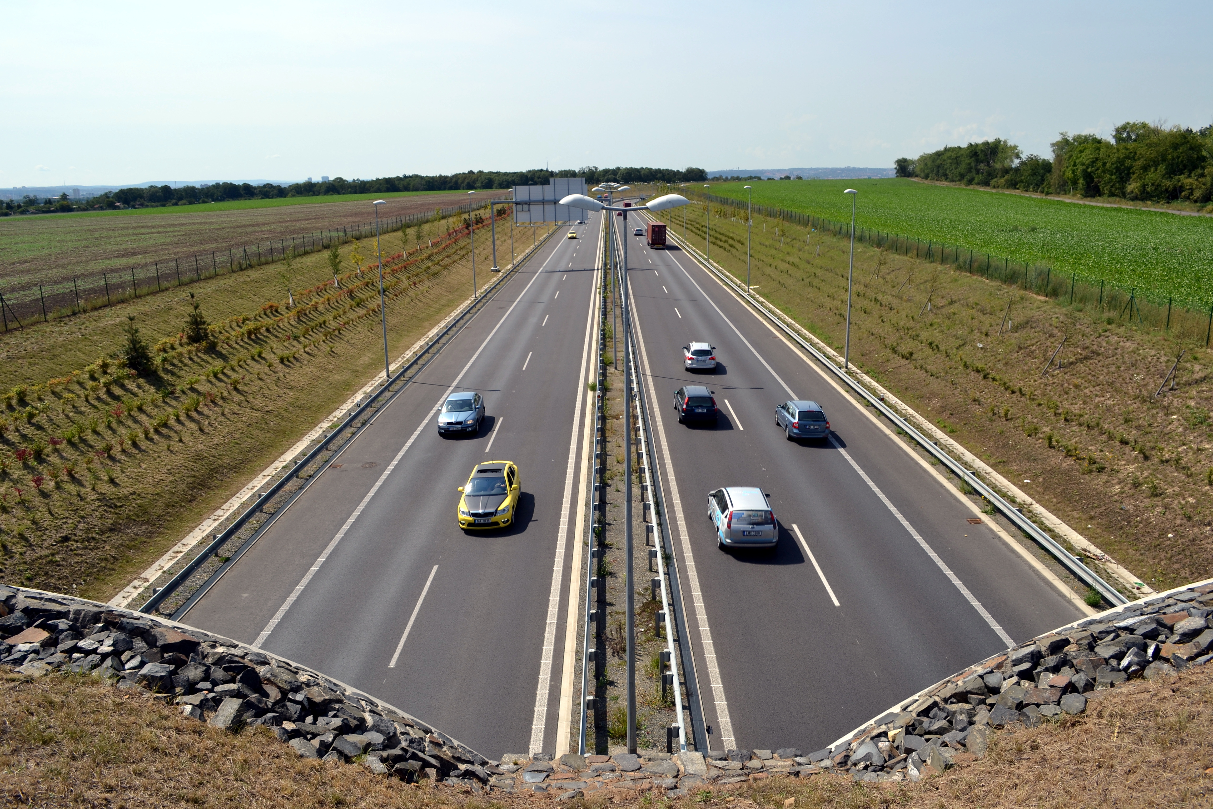 Expressway Vysočanská radiála connecting R1 expressway (outer ring of Prague) and Kbelská street opened in 2011. The photo is taken from a wildlife overpass. Prague, Czech Republic.